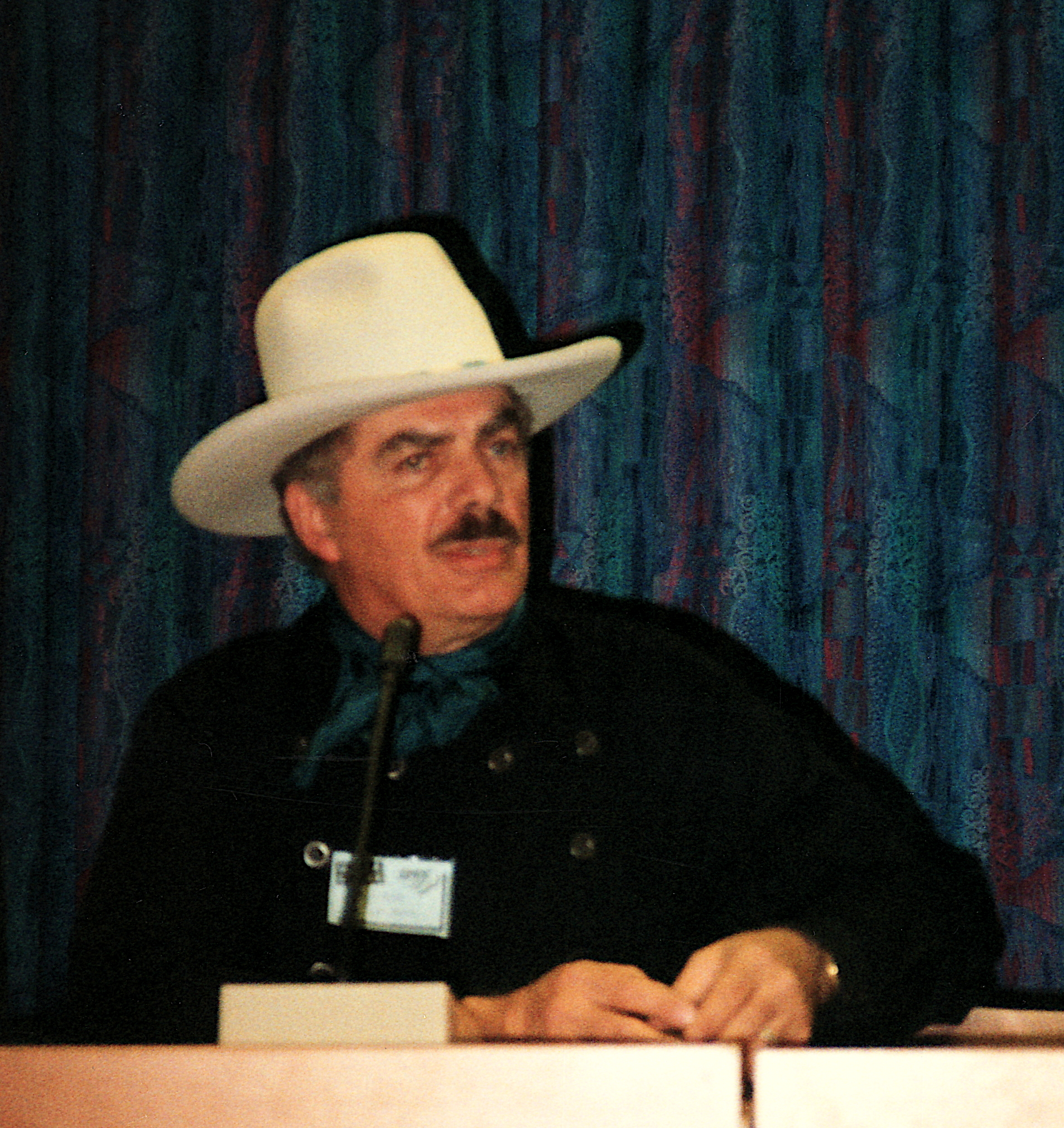 Comics creator Stan Lynde, during the Serie-Expo '93 comics convention in Sollentuna, Sweden.